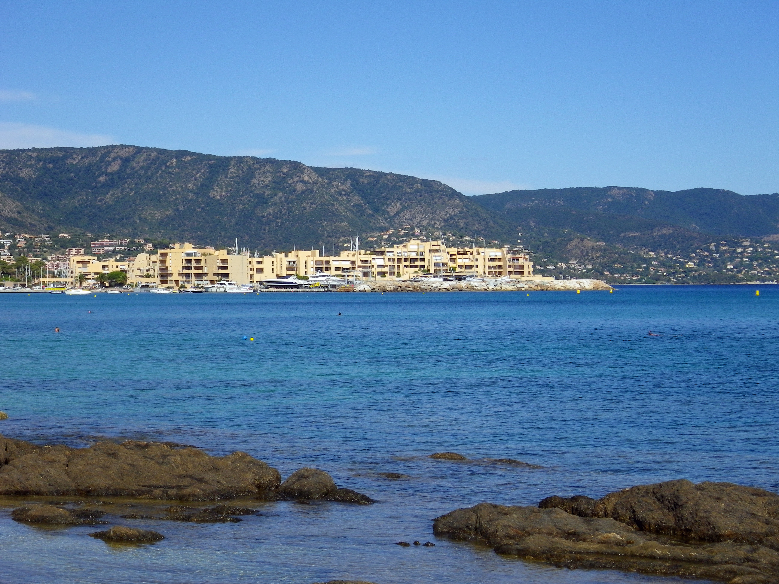 Bormes-les-Mimosas (Var department, France), port in district La Faviere seen from the south. Massif des Maures in the background